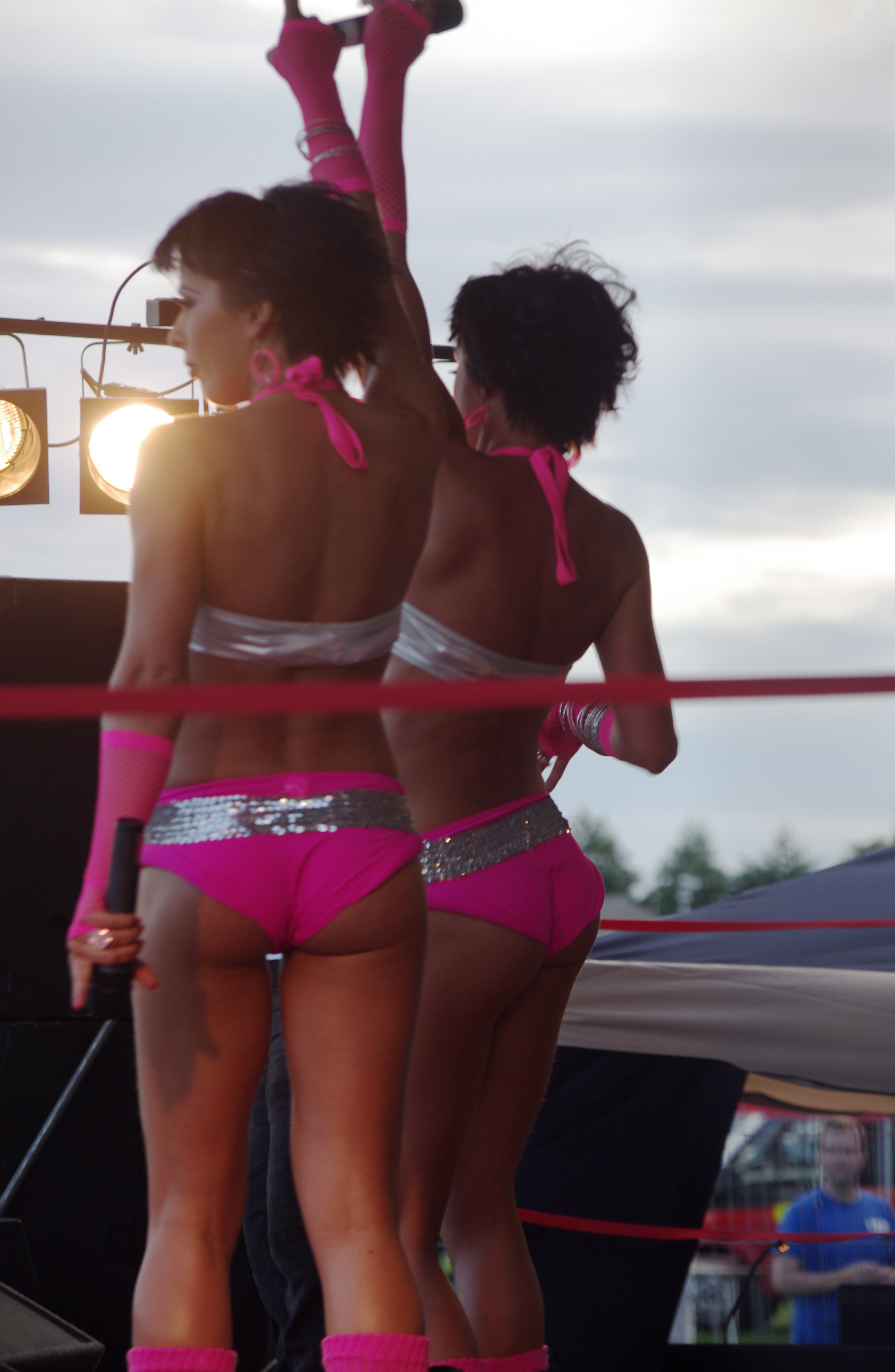 The Cheeky Girls perform onstage at Nottingham Pride 2010.